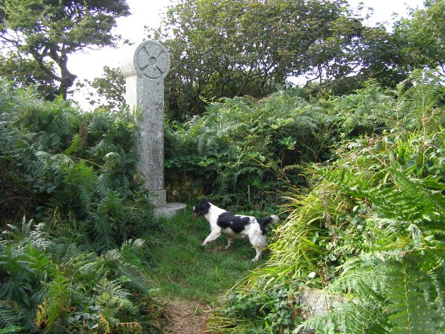 Modern stone cross at Sancreed Chapel and Well. This modern stone cross was erected in 1910, a copy of a medieval cross in Illogan churchyard. It stands on a two-stepped base with an inscription in lead lettering. On the right is the west wall of the ruined Medieval chapel (a grade II listed building) which is fairly well overgrown with bracken and brambles. The dog was a local beast which followed us from Sancreed Church where we parked, waited, then followed us back again along the new permissive path that leads north to the Sancreed-Grumbla road.